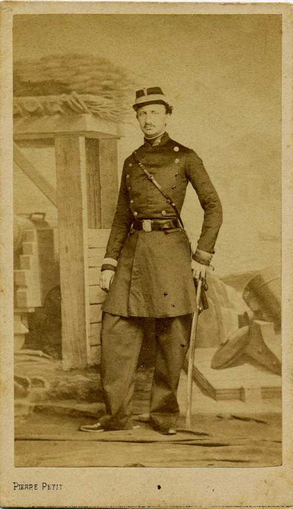 Pierre Petit (1832-1909) - King Francis II of the Two Sicilies (1836-1894). Recto Verso